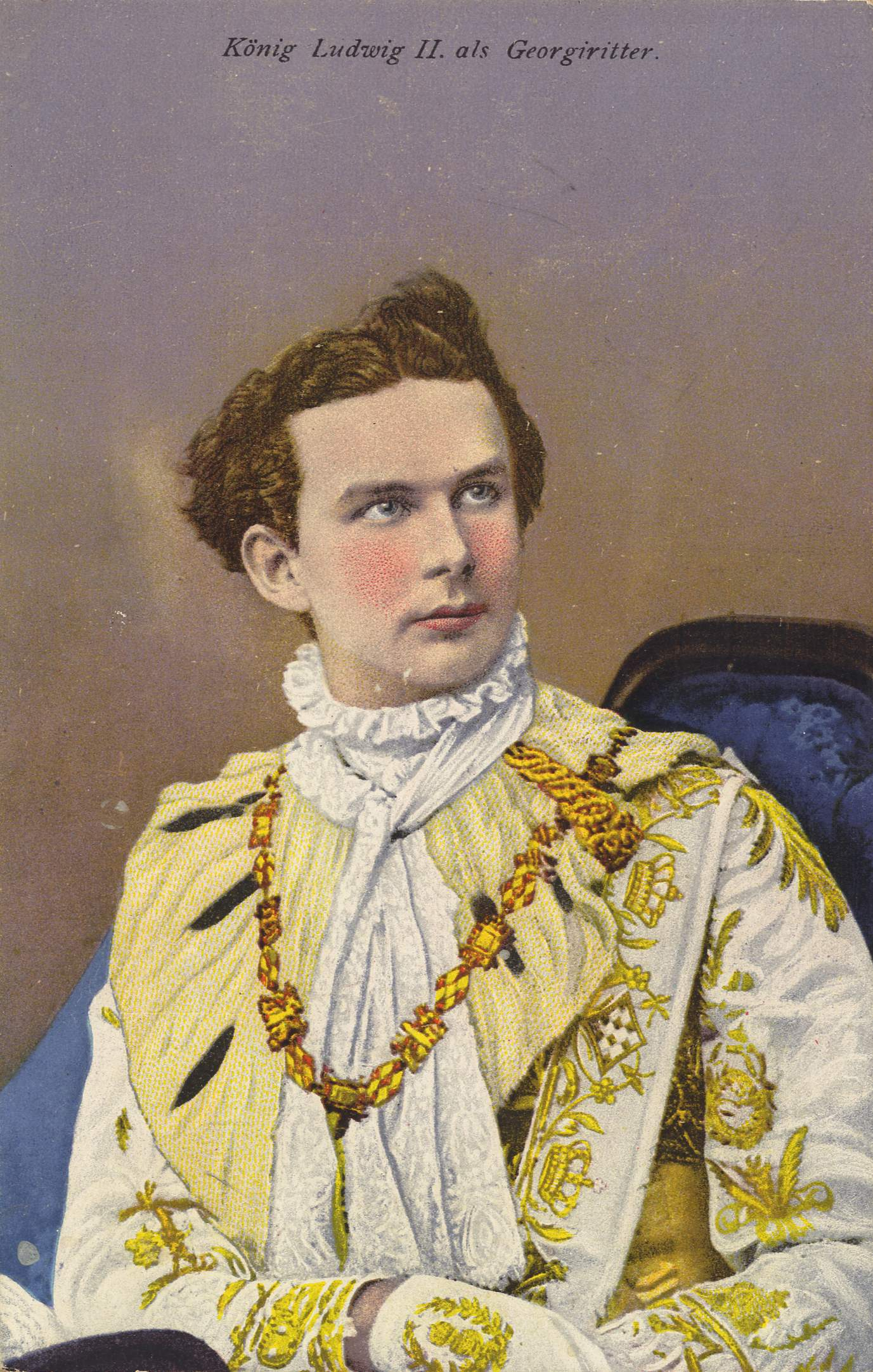 Ludwig (Louis) II, King of Bavaria, (1845-1886)